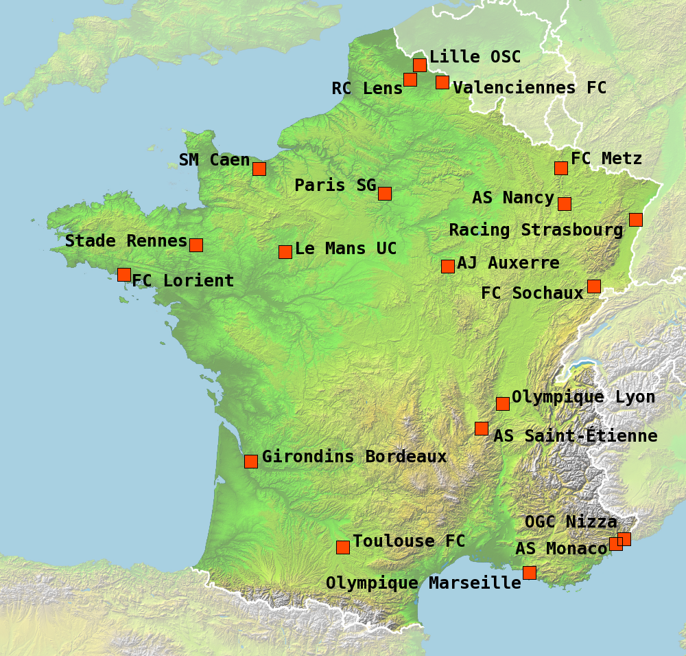 Map of France with locations of Ligue 1-FCs 2007/08